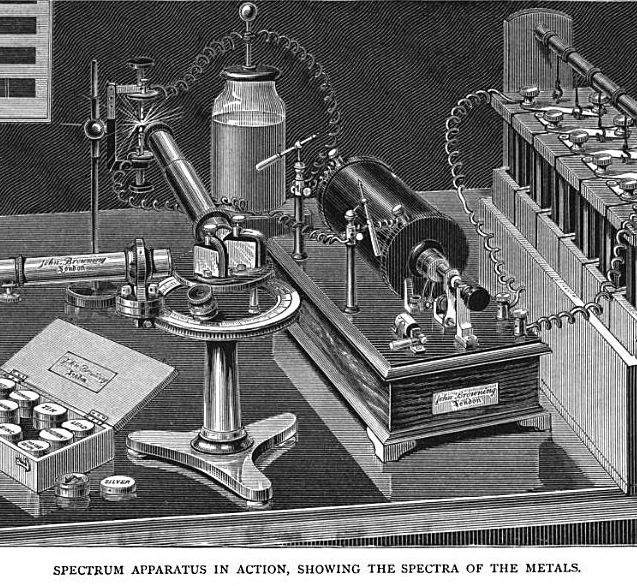 Illustration from 1878 book by John Browning, How to Work With the Spectroscope.